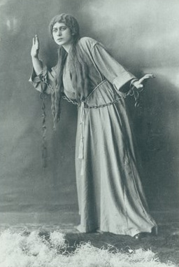 Bulgarian opera singer Penka Toromanova, Margarita in Faust opera by Charles Gounod.